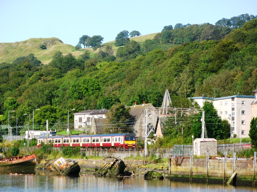 First ScotRail's 320301 passes Bowling Harbour in West Dunbartonshire with a North Clyde Line service from Balloch.